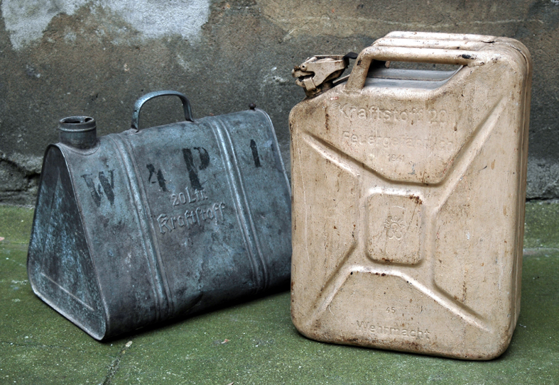 German Container for 20 liters of fuel. left: former container, right: Wehrmacht-Einheitskanister of 1941, manufacturers Nirona